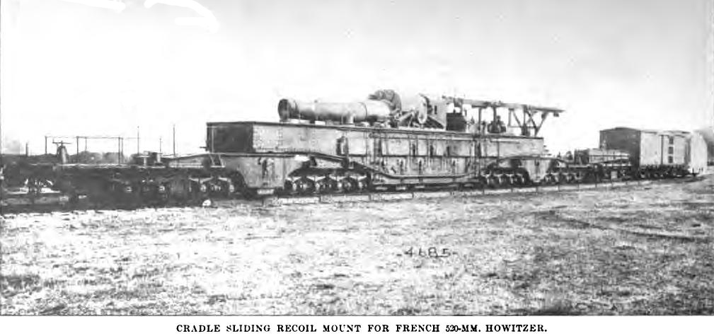 French 520 mm howitzer on cradle sliding recoil mount, World War I era.